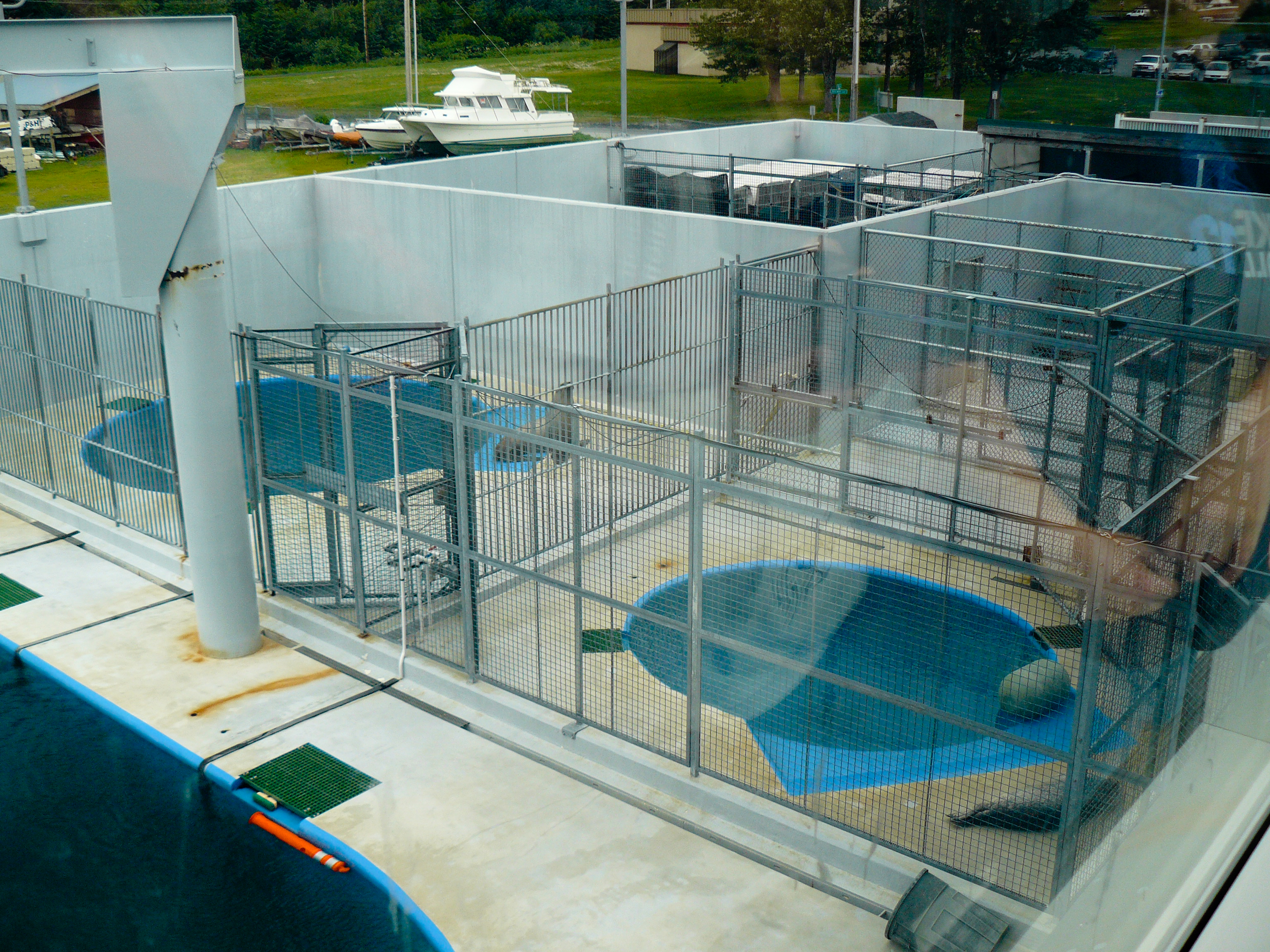 Outdoor pens for marine mammals at the Alaska SeaLife Center.